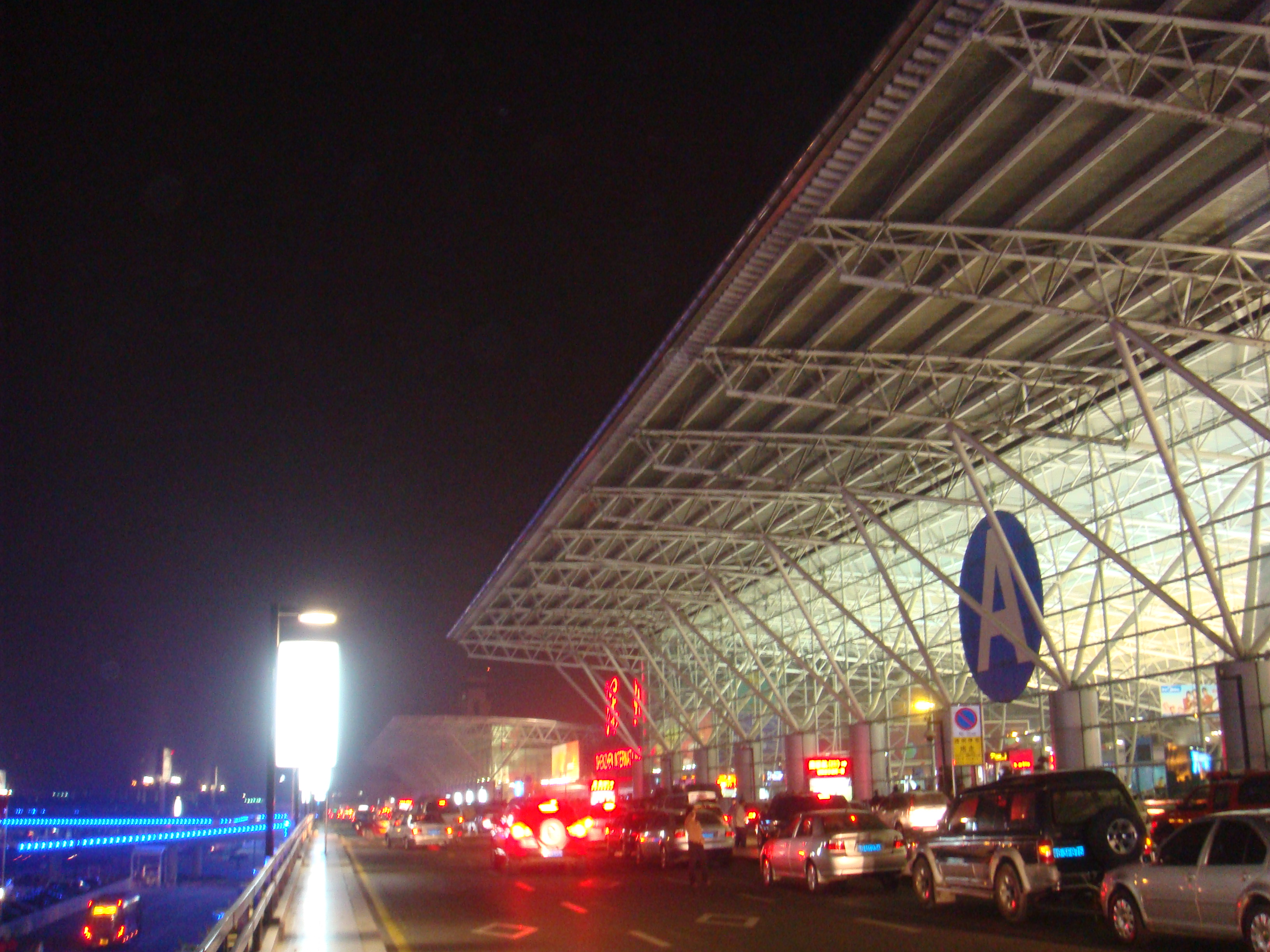 Shenzhen Airport Terminal A